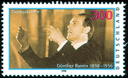 Stamp from Deutsche Post AG from 1998, 100th birthday of Günther Ramin